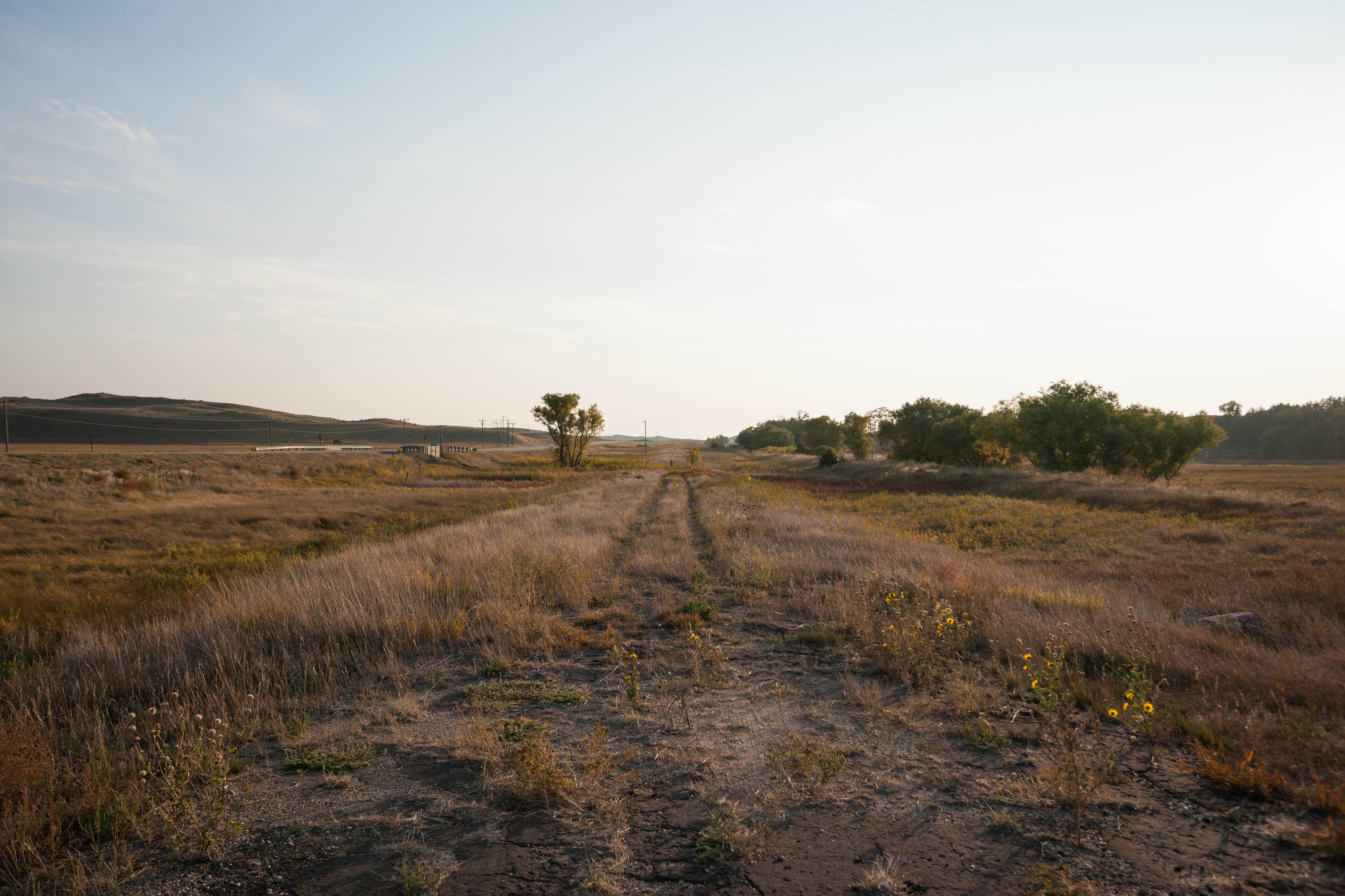 From